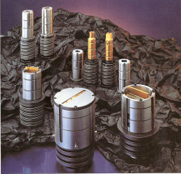 Amada Tools used for punch pressing.